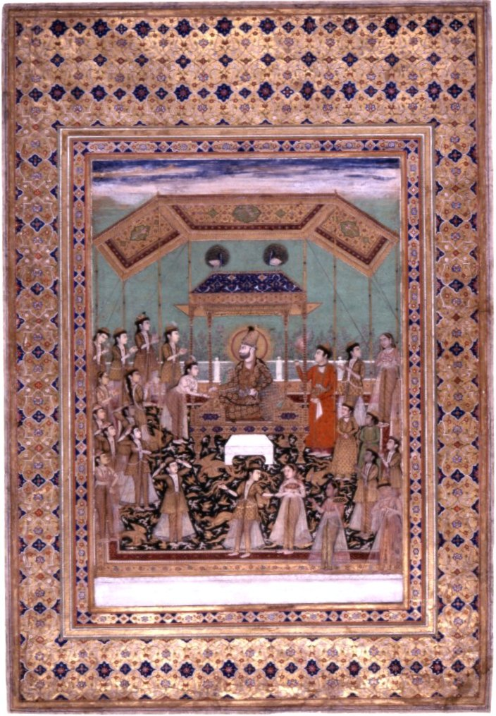 Zaman Shah Durrani in Durbar North India, probably Lahore Gouache and gold on paper Inscribed: 'Portrait of his highness king of king Zaman Shah Padishah Durrani, may God prolong his realm and reign. Shown seated on the Peacock Throne, Zaman Shah Durrani, the Afghan ruler, seized the old Mughal capital of Lahore for three years, 1798-1801. Presumably this portrait came about as a result of Zaman Shah's access to the Mughal court artists' workship. Although the actual portrait of Zaman Shah Durrani is a mask-like and immobile, the animals in the carper are exceptionally lively. The gestures and poses of his many female attendants echo the rhythm of the carpet design.